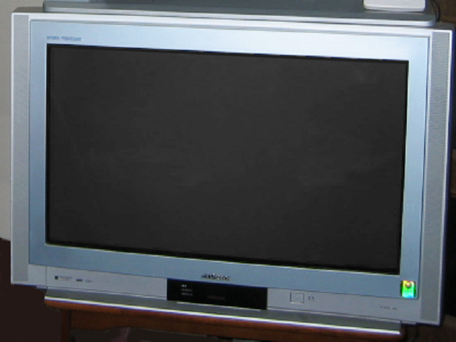 Victor Flat Vision AV-28AD1 (2000)